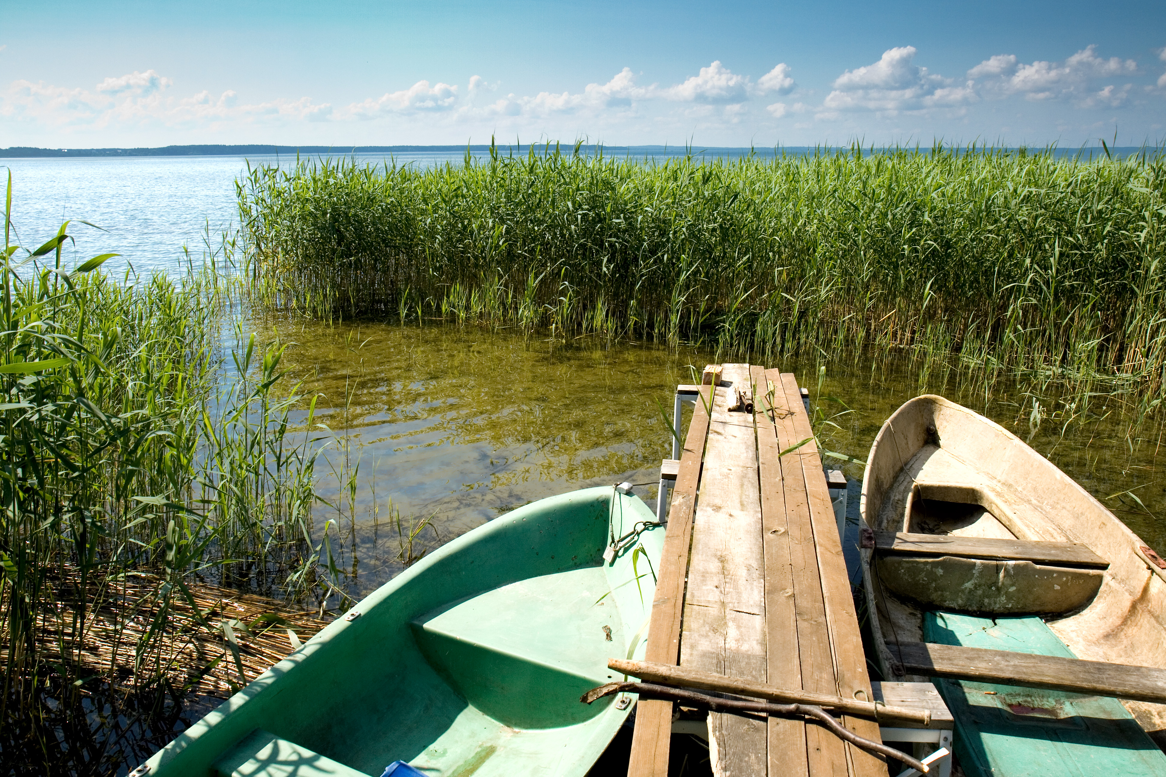 Lake Narach (Narač), Belarus. Беларуская (тарашкевіца): Возера Нарач, Беларусь.